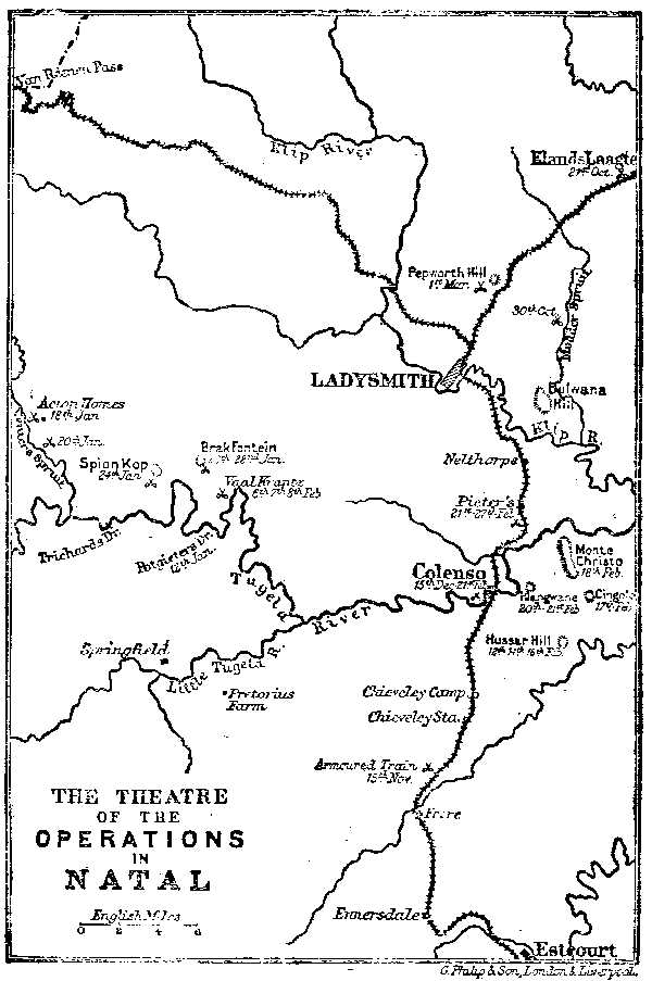 Book illustration